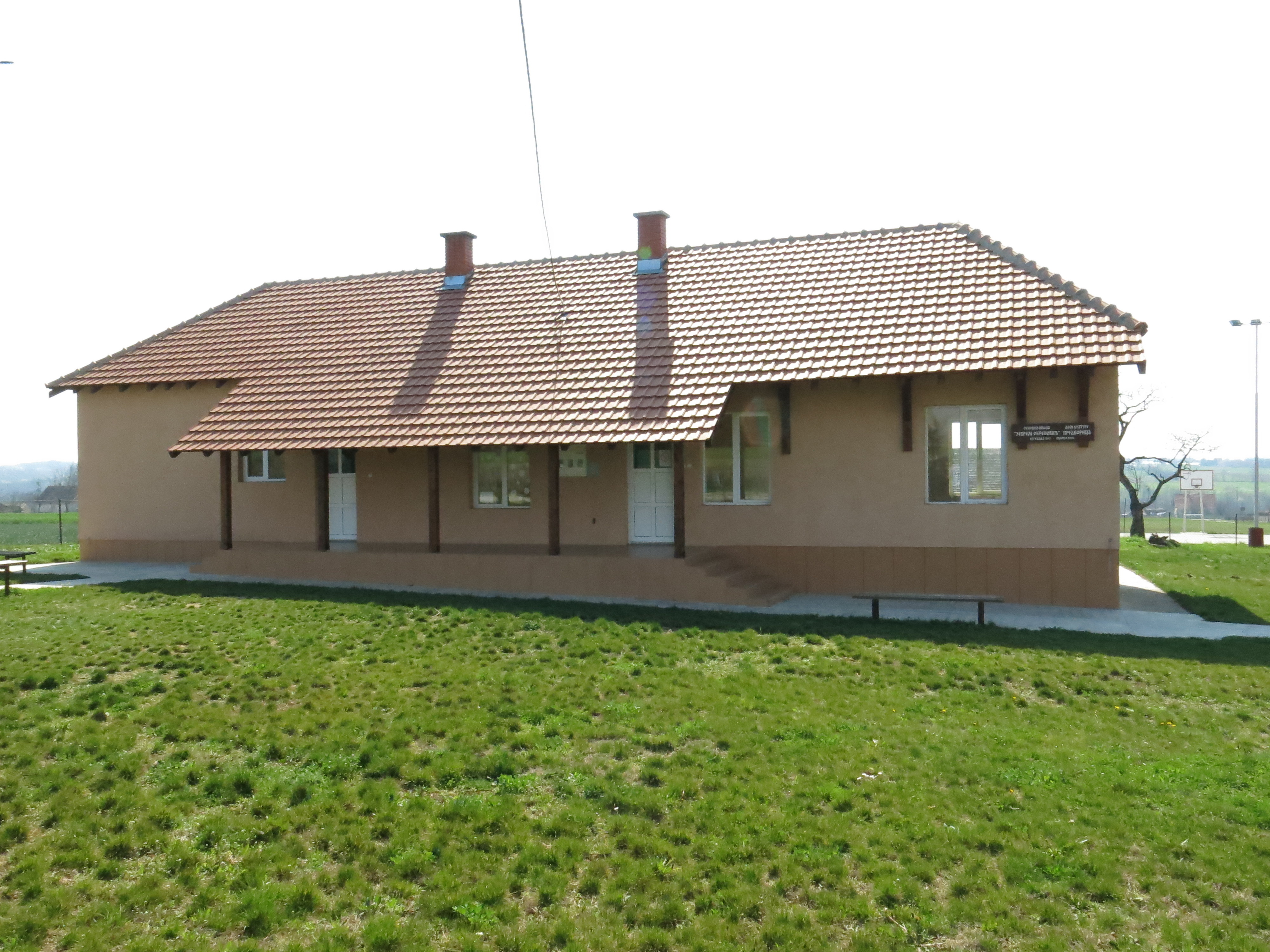 Predvorica, Elementary school Jevrem Obrenović